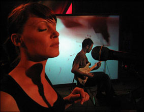 Vacabou en los conciertos de Radio 3, de Radio Nacional de España.